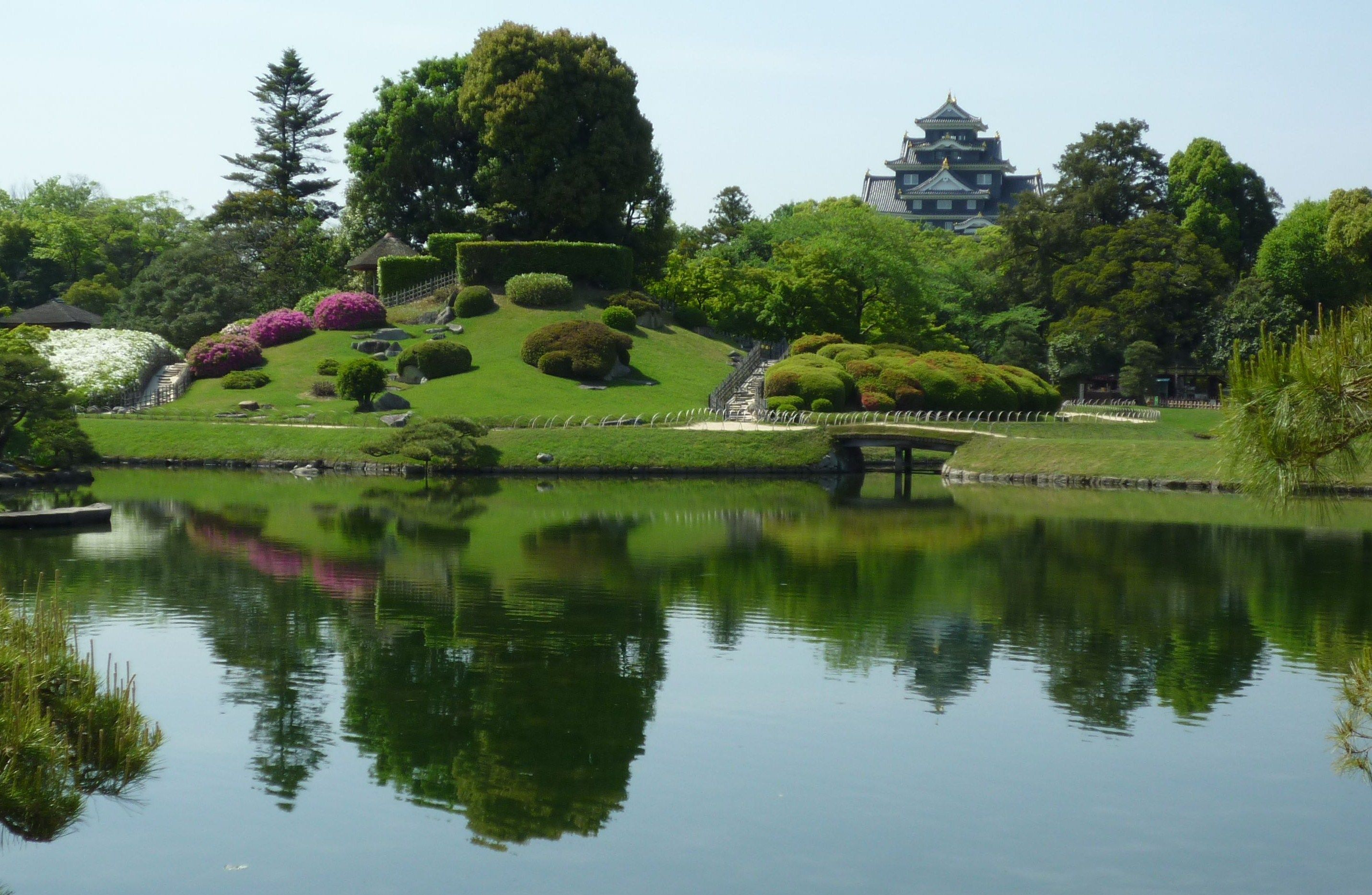 The scenery of Okayama Korakuen Garden. (Kita-ku, Okayama City, Okayama Pref, JPN) Okayama Korakuen Garden is one of famous Japanese garden, built in 1700 by Ikeda Tsunamasa, lord of the Okayama Clan. The black building is the dungeon of Okayama castle.